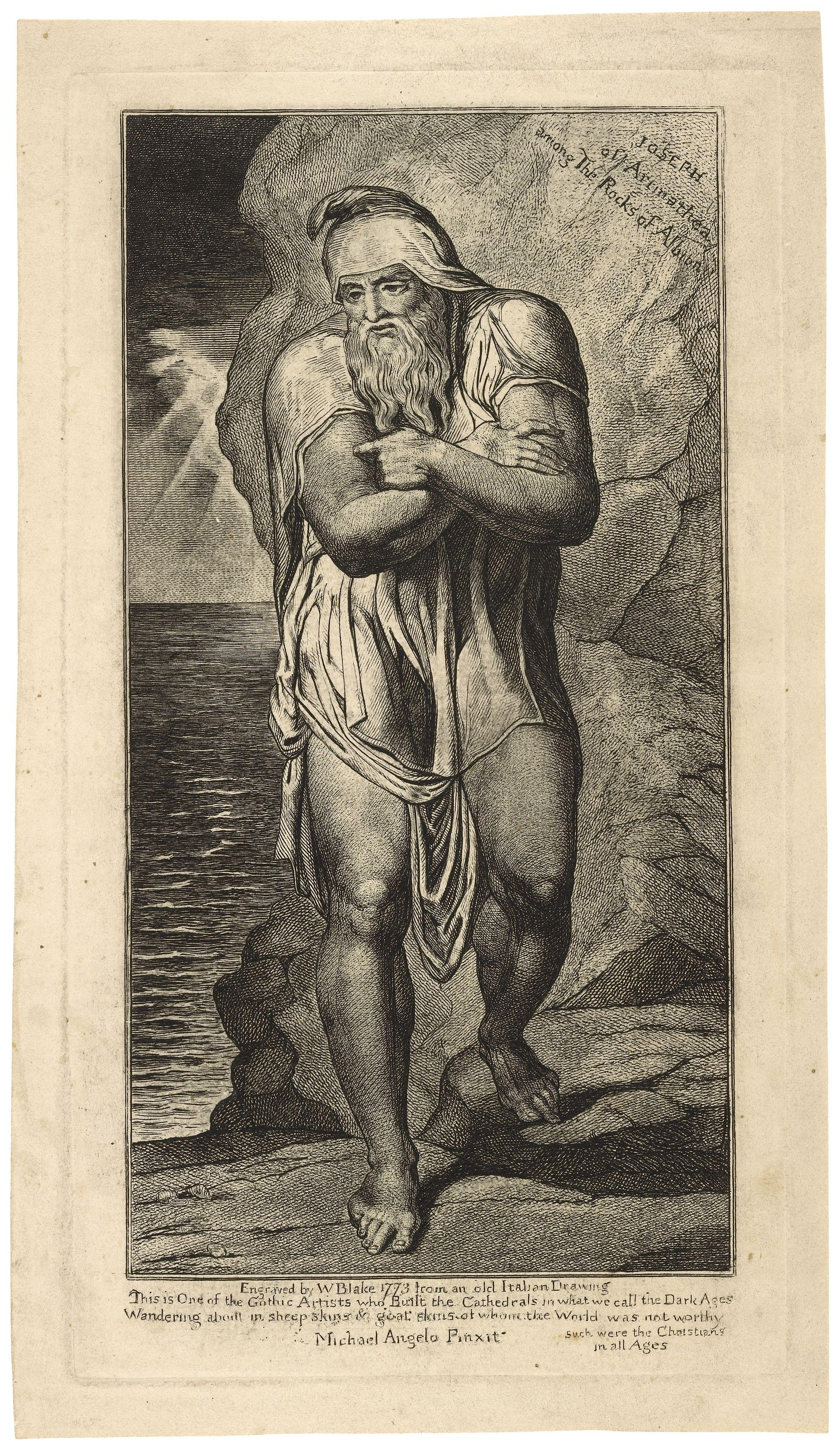 Engraving